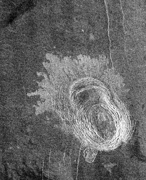 This image of Sachs Patera on Venus is centered at 49 degrees north, 334 degrees east. Defined as a sag-caldera, Sachs is an elliptical depression 130 meters (81 feet) in depth, spanning 40 kilometers (25 miles) in width along its longest axis. The morphology implies that a chamber of molten material drained and collapsed, forming a depression surrounded by concentric scarps spaced 2-to-5 kilometers (1.2- to-3 miles) apart. The arc-shaped set of scarps, extending out to the north from the prominent ellipse, is evidence for a separate episode of withdrawal; the small lobe-shaped extension to the southwest may represent an additional event. Solidified lava flows 10-to-25 kilometers (6-to-16 miles) long, give the caldera its flower-like appearance. The flows are a lighter tone of gray in the radar data because the lava is blockier in texture and consequently returns more radar waves. Much of the lava, which was evacuated from the chamber, probably traveled to other locations underground, while some of it may have surfaced further south. This is unlike calderas on Earth, where a rim of lava builds up in the immediate vicinity of the caldera.